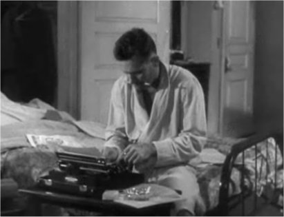 Screenshot taken by me (Icea) from the trailer to the movie Sunset Blvd.